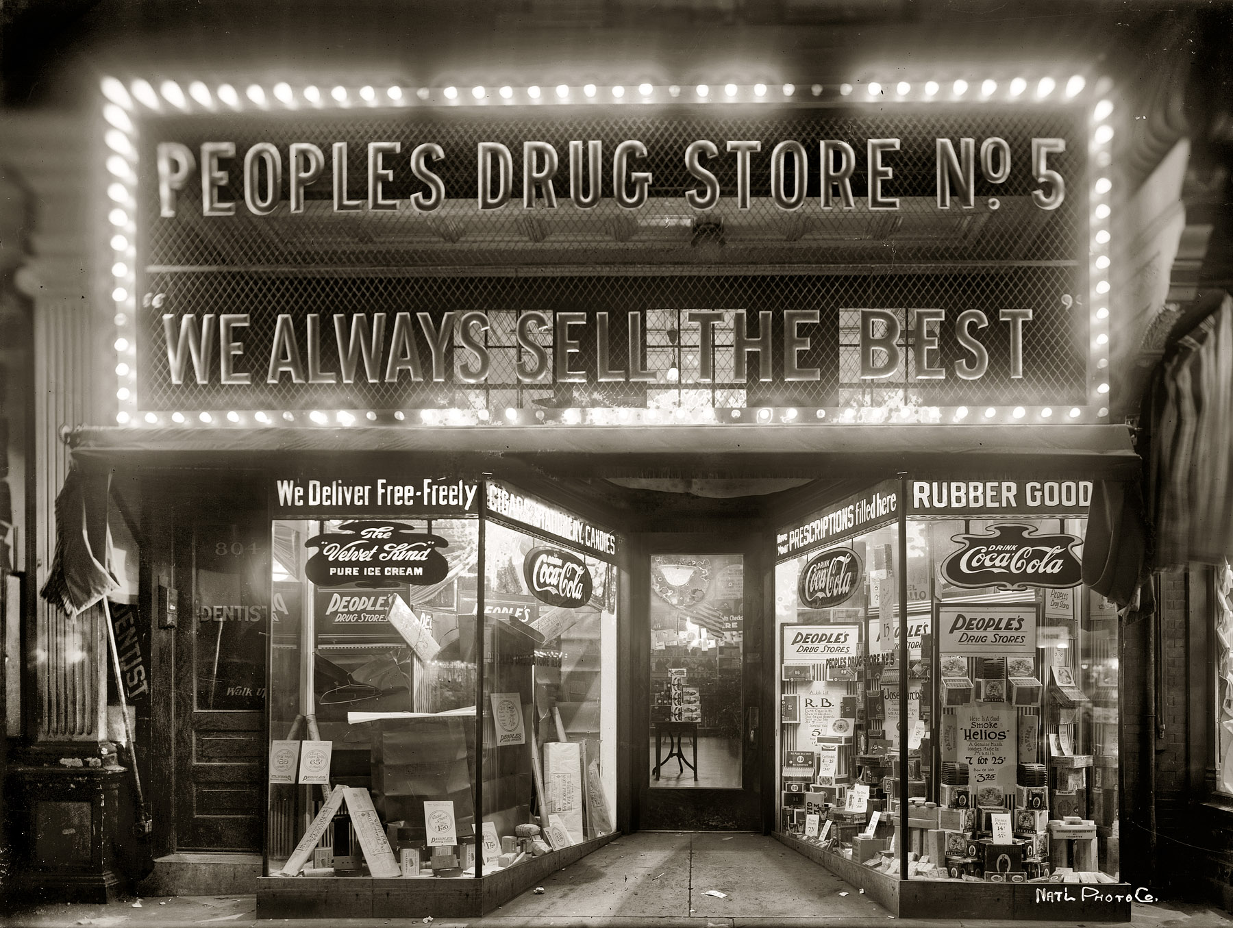 People's Drug Store located at 8th and H Streets, NE in Washington, D.C. The building now stands between a PNC Bank and Payless Shoe Source store.